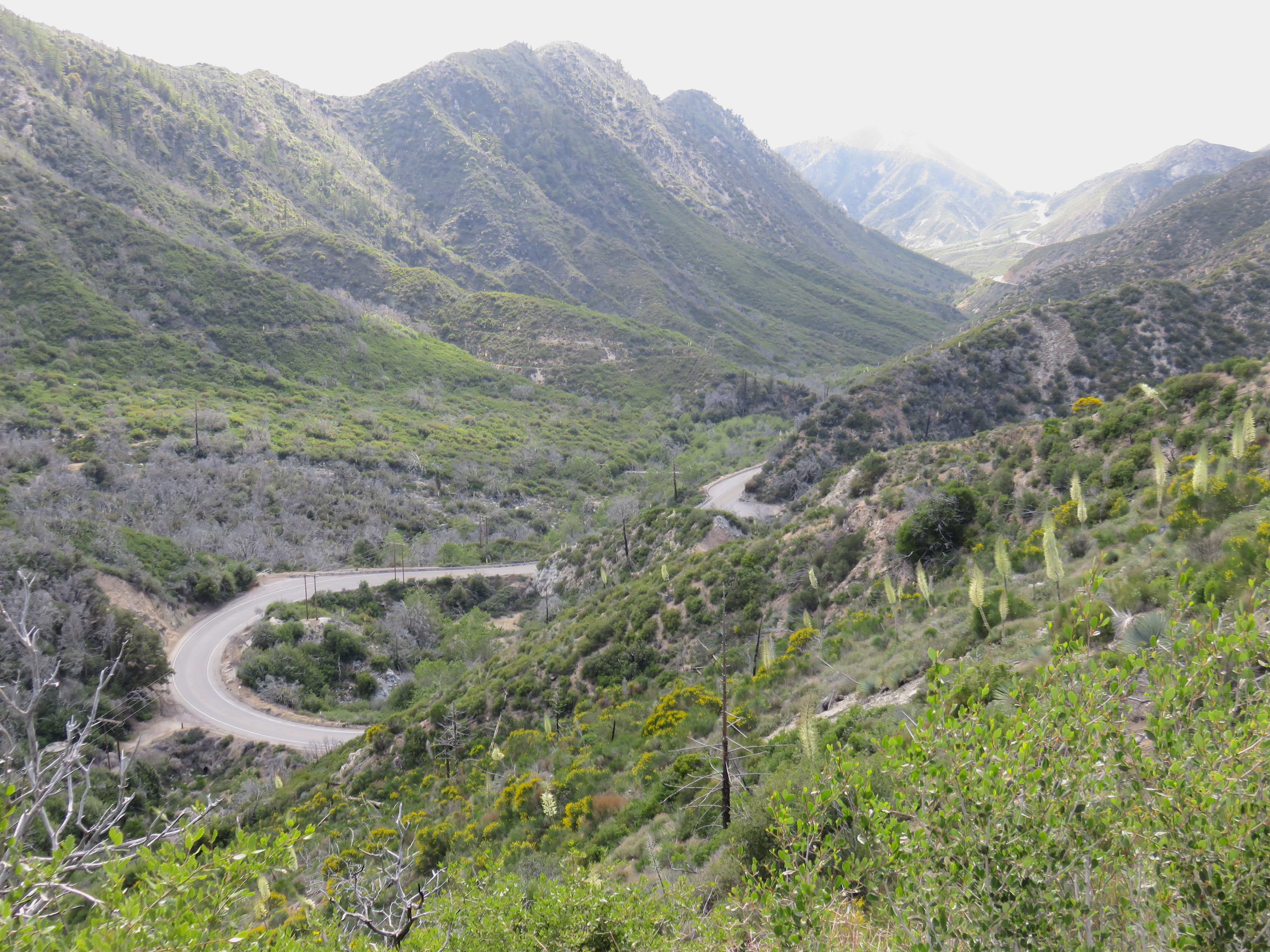 Angeles Crest Highway winding through a valley west of Red Box Saddle in 2019